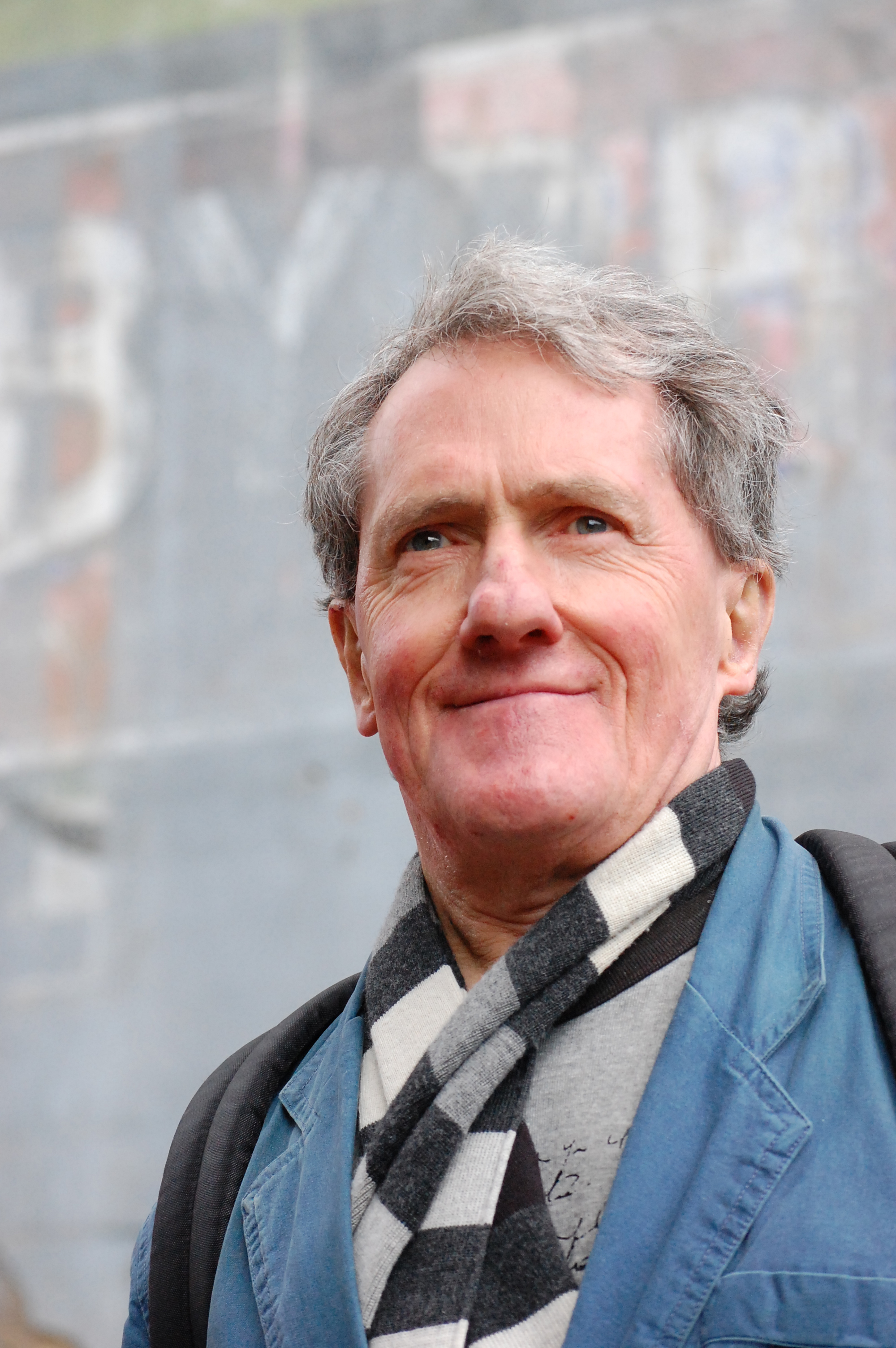 Jean-Yves Veillard, historian, working about Bretagne